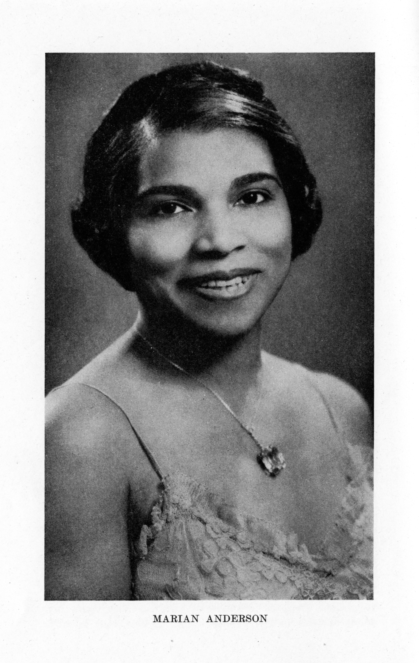 Photograph of Marian Anderson